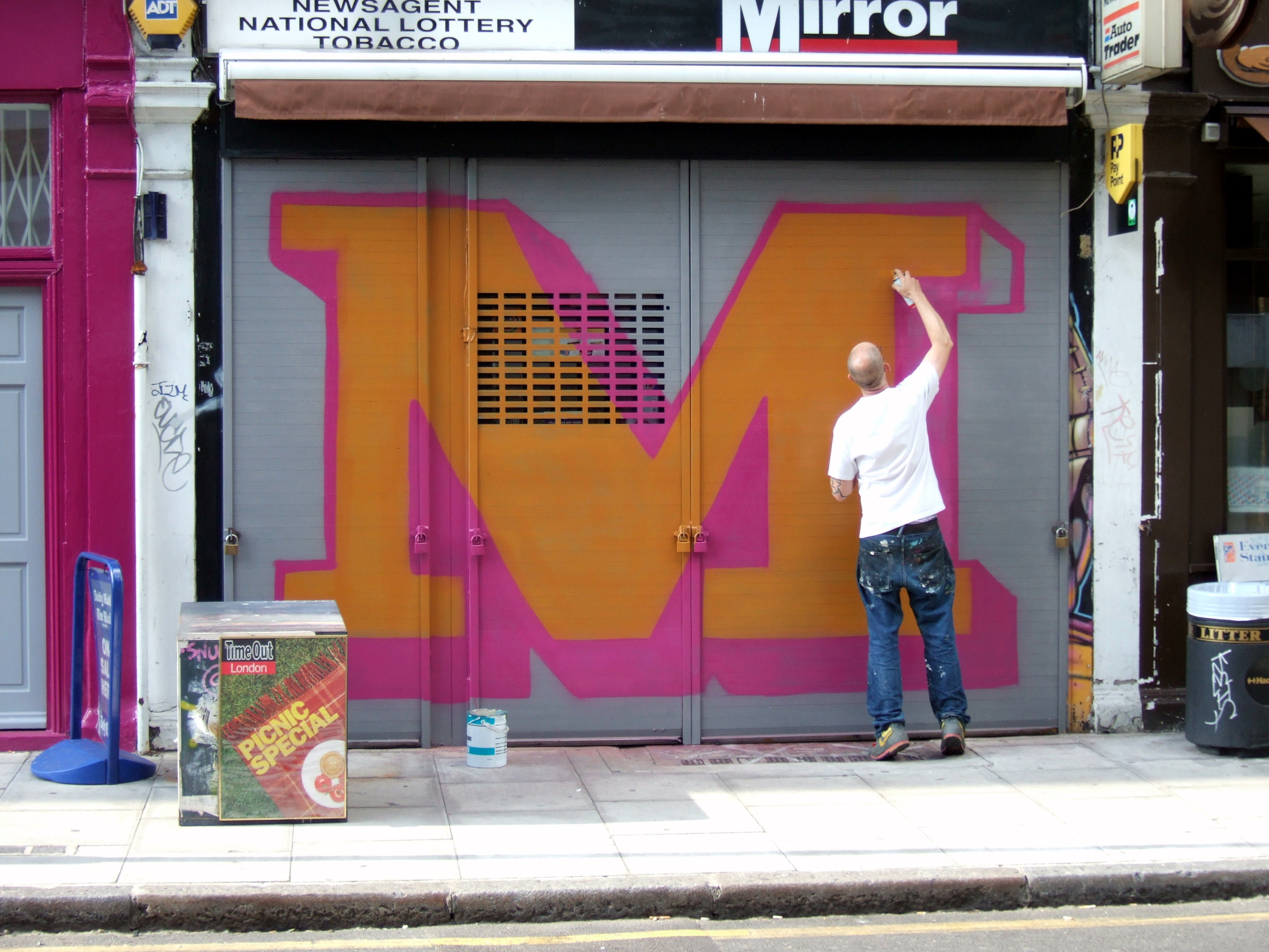 Ben Eine painting an 'M' on a newsagent: Diptesh Confectionery, 89 Leonard St, London EC2A 4QS